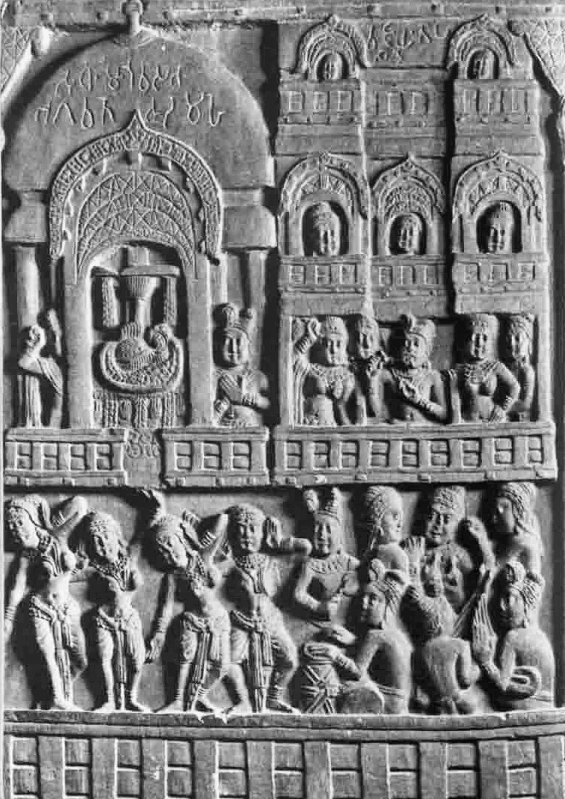 Sudhamma Palace Bharhut. The inscription to the left reads: "Sudhaṁmā devasabhā/ Bhagavato chūḍāmaho", ie "The hall of the gods Sudhaṁmā (Sudharmā). The festival of the hair-lock of the Holy One" Inscription B21. The inscription to the right reads: "Vejayaṁto pāsāde" ie "The Vejayaṁta palace" Inscription B22